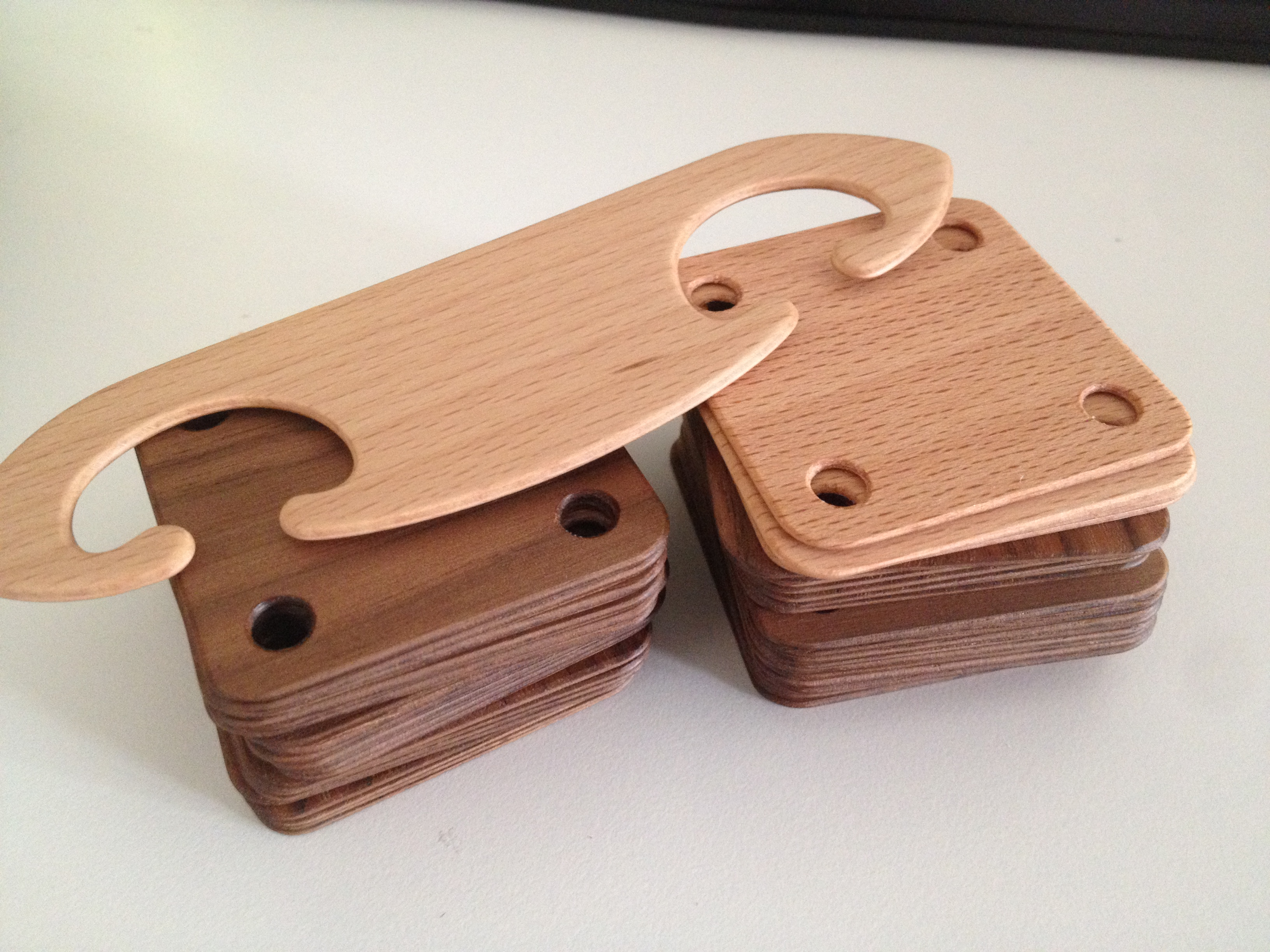 Wooden cards for tablet weaving with matching shuttle.